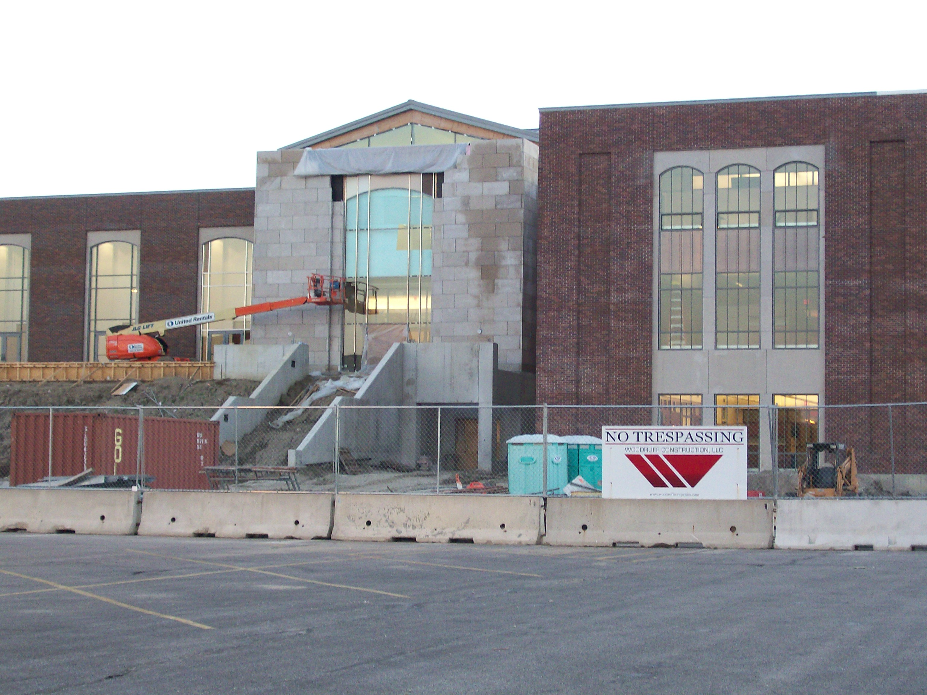 Alumni Center at Iowa State University, construction work taking place